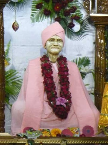 Murti of Prajnana Kesava Svami